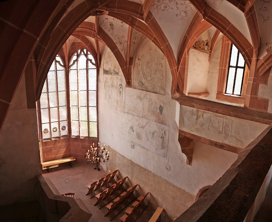 Rochlitz, chapel of Rochlitz castle.